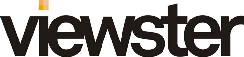 Viewster Logo